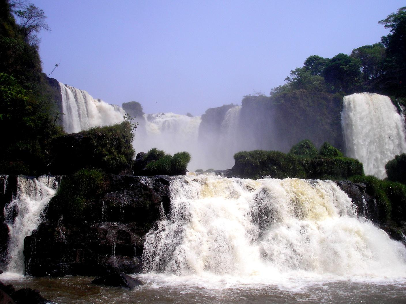 Monday Falls in Presidente Franco Paraguay.